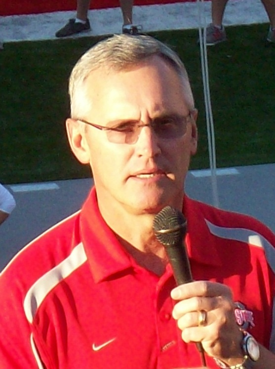 Jim Tressel at his office in Ohio Stadium